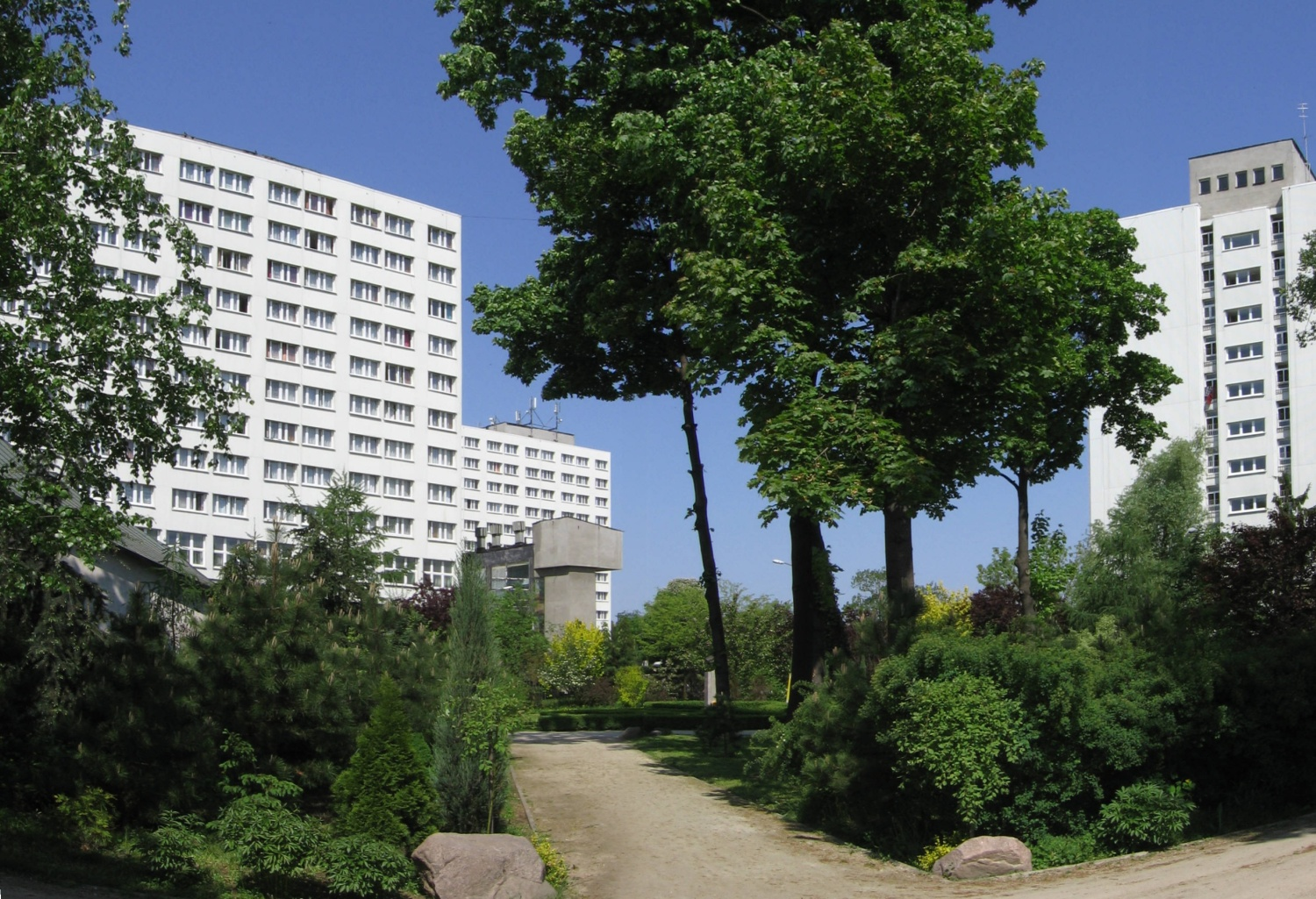 "Wittigowo", Wittiga street - student's hostels of Technical University of Wrocław (Poland).